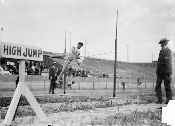 American athlete Samuel Jones during the high jump competition at the 1904 Olympic Games.